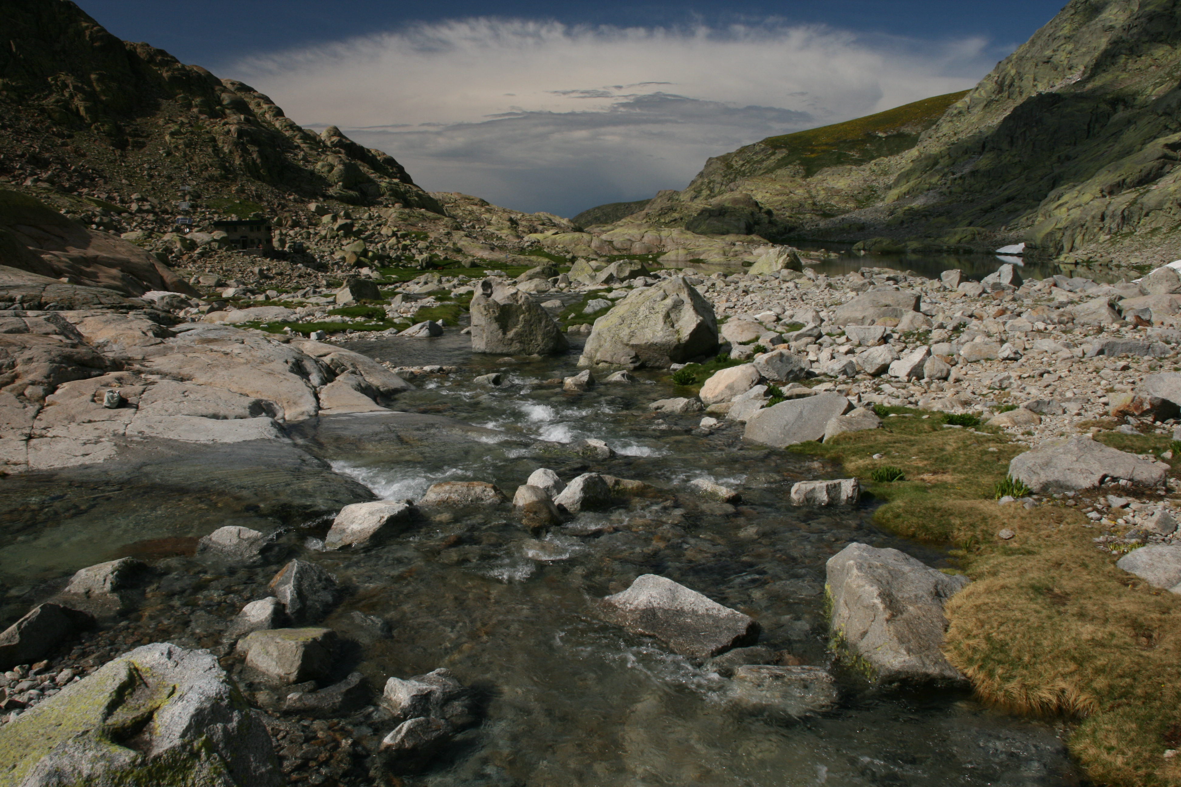 Circo de Gredos at Avila, Spain. 1935 m